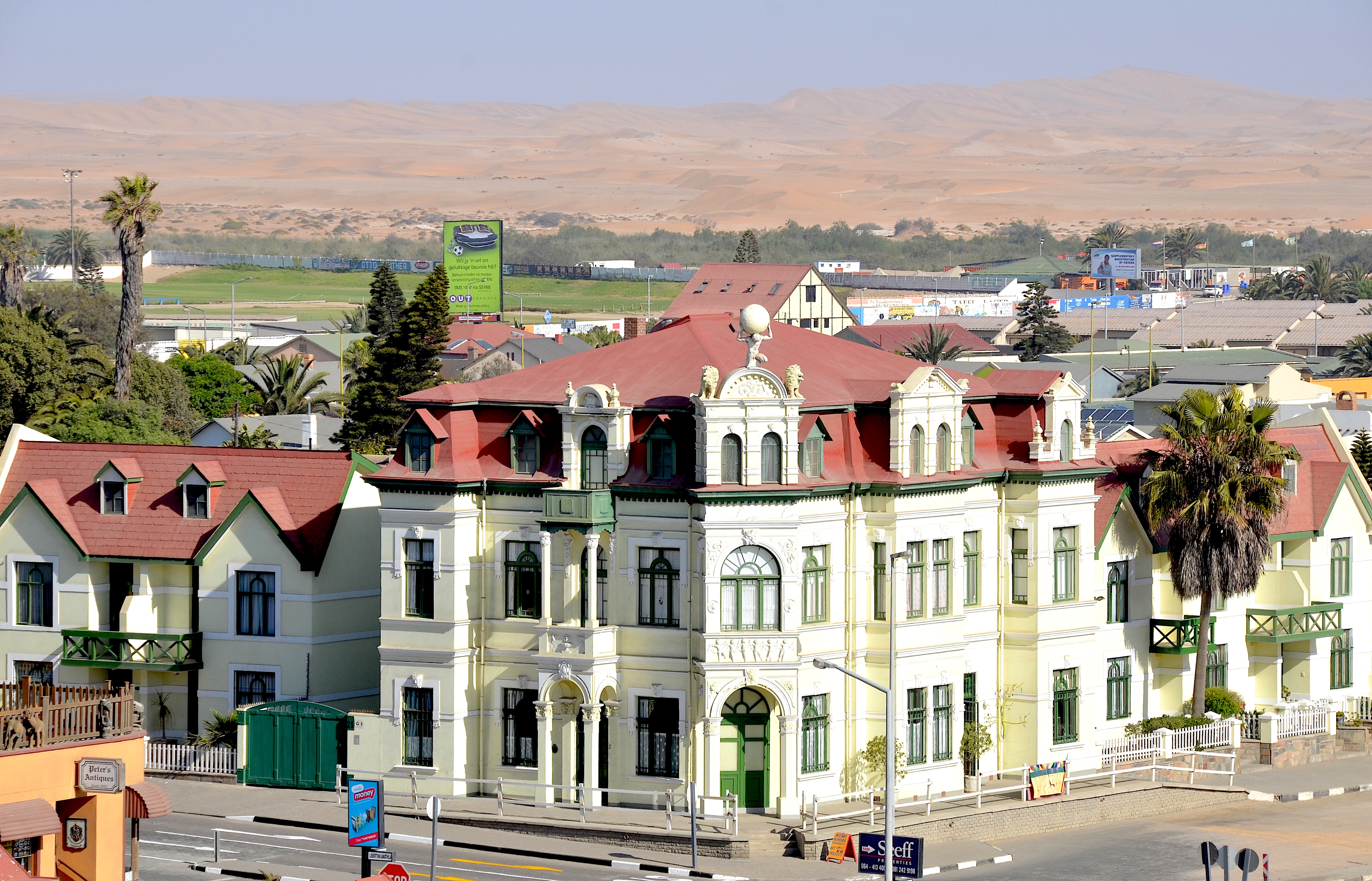 Hohenzollernhaus, Swakopmund (2014)